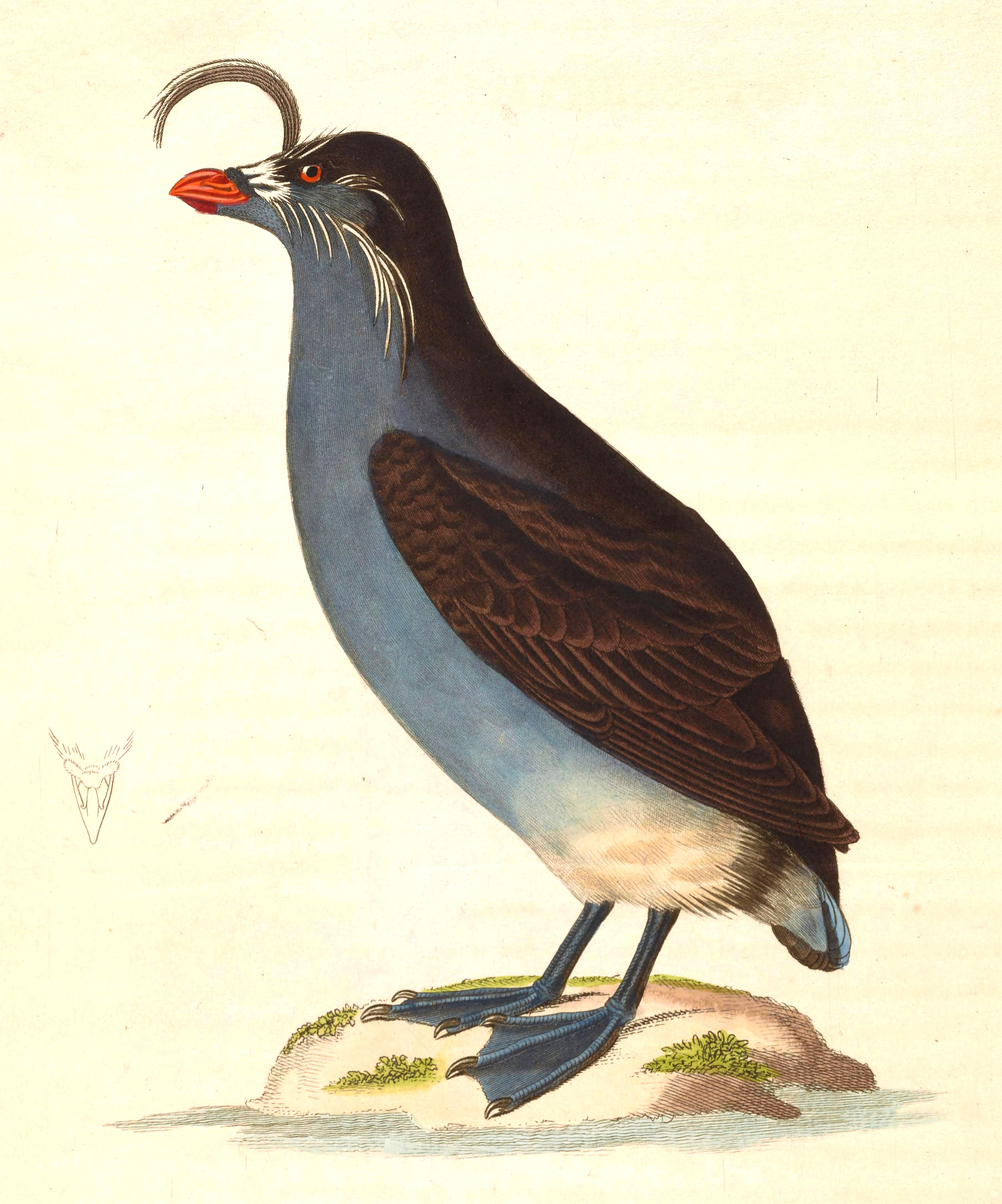 « Phaleris cristatella » = Aethia cristatella (Crested Auklet) - adult - COMMENT: Going by the positioning of the white ornamentary feathers, this illustration is certainly depicted or redrawn from a Whiskered Auklet (Aethia pygmaea) or its skin (likely a skin).